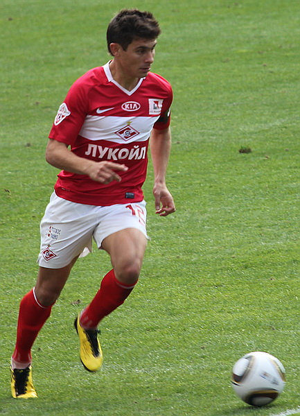 Alex Raphael Meschini